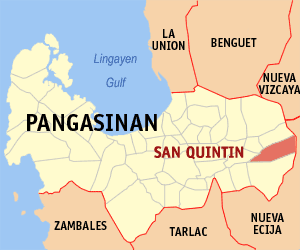 Map of Pangasinan showing the location of San Quintin